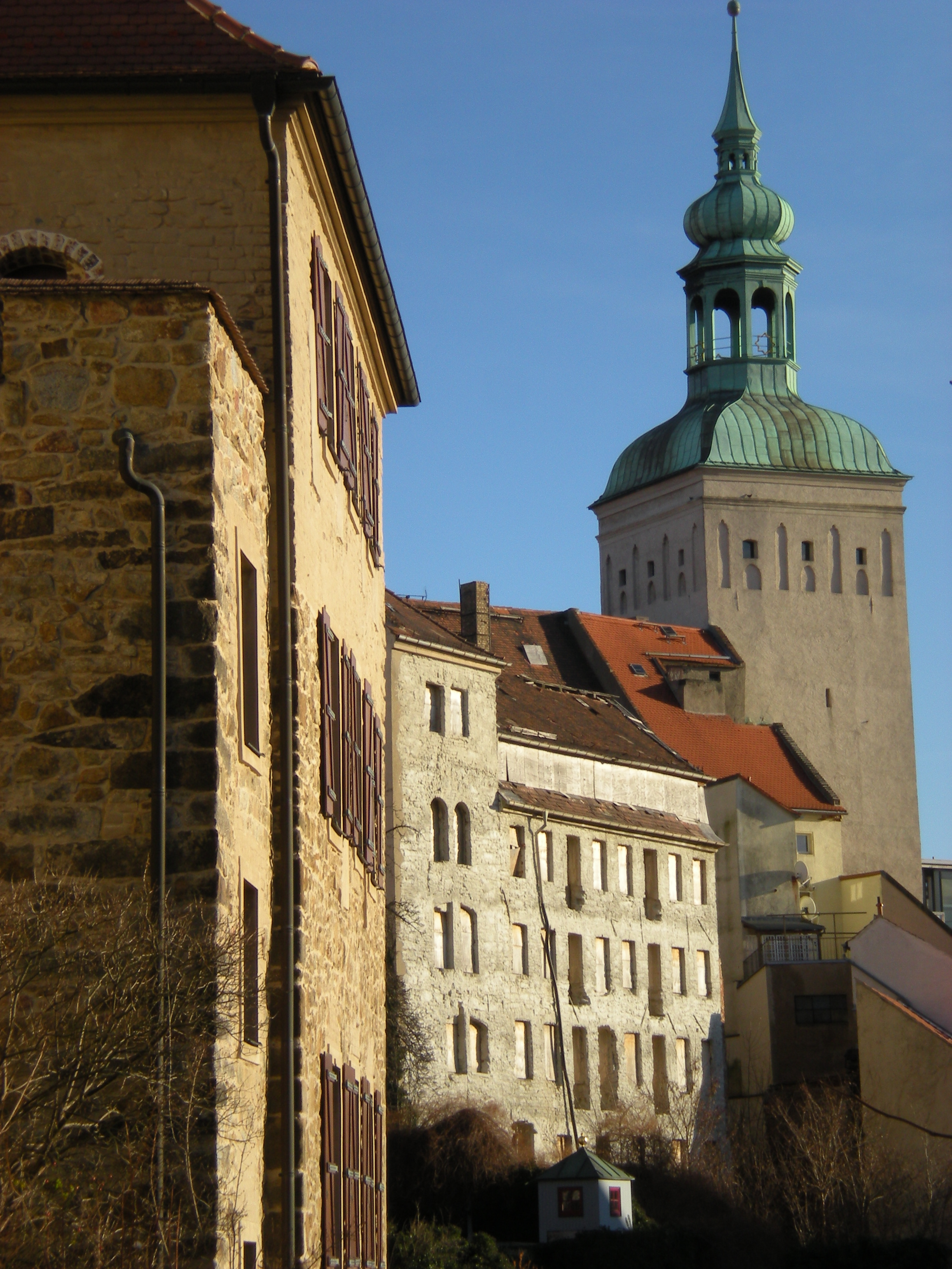 Mönchsbastei (left) and Lauenturm (right), parts of the defensive walls of Bautzen, Germany